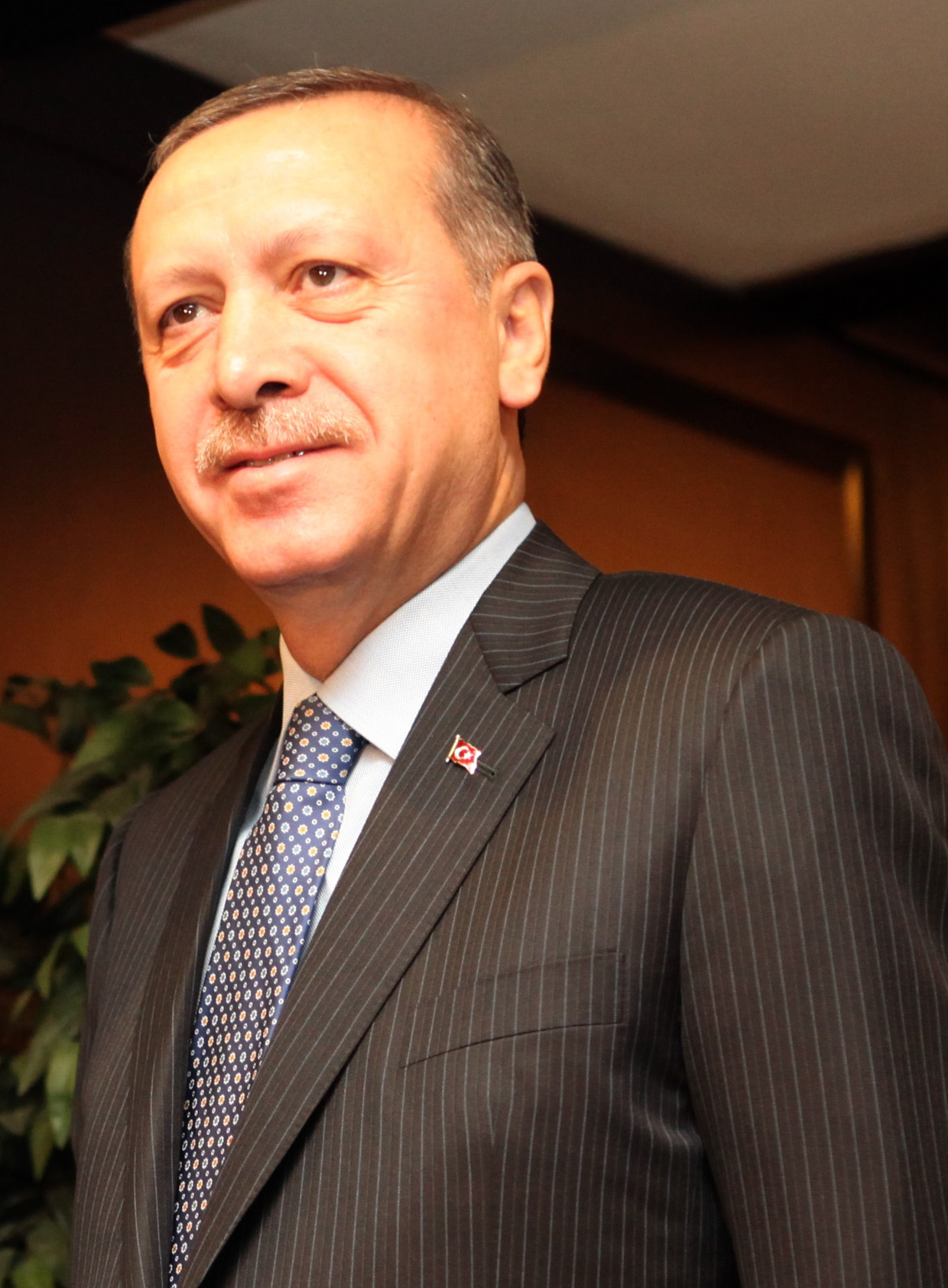 Erdogan